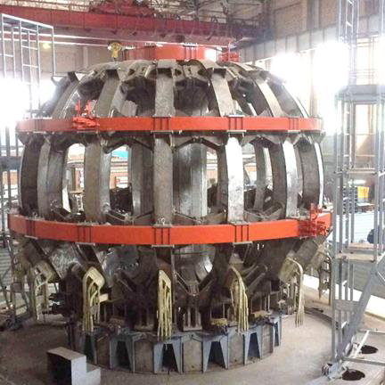 Toroidal winding together with poloidal field coils of the sovjet hybrid tokamak fusion-fission reactor T-15MD. The toroidal magnet system consists of 16 D-shaped coils that form an arched structure. The reactor is preassembled in Bryansk around 2015-2017.[1] Some components are recycled from the T-15 tokamak from 1988.